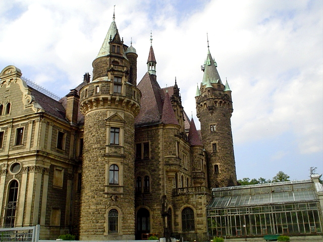 Moszna castle